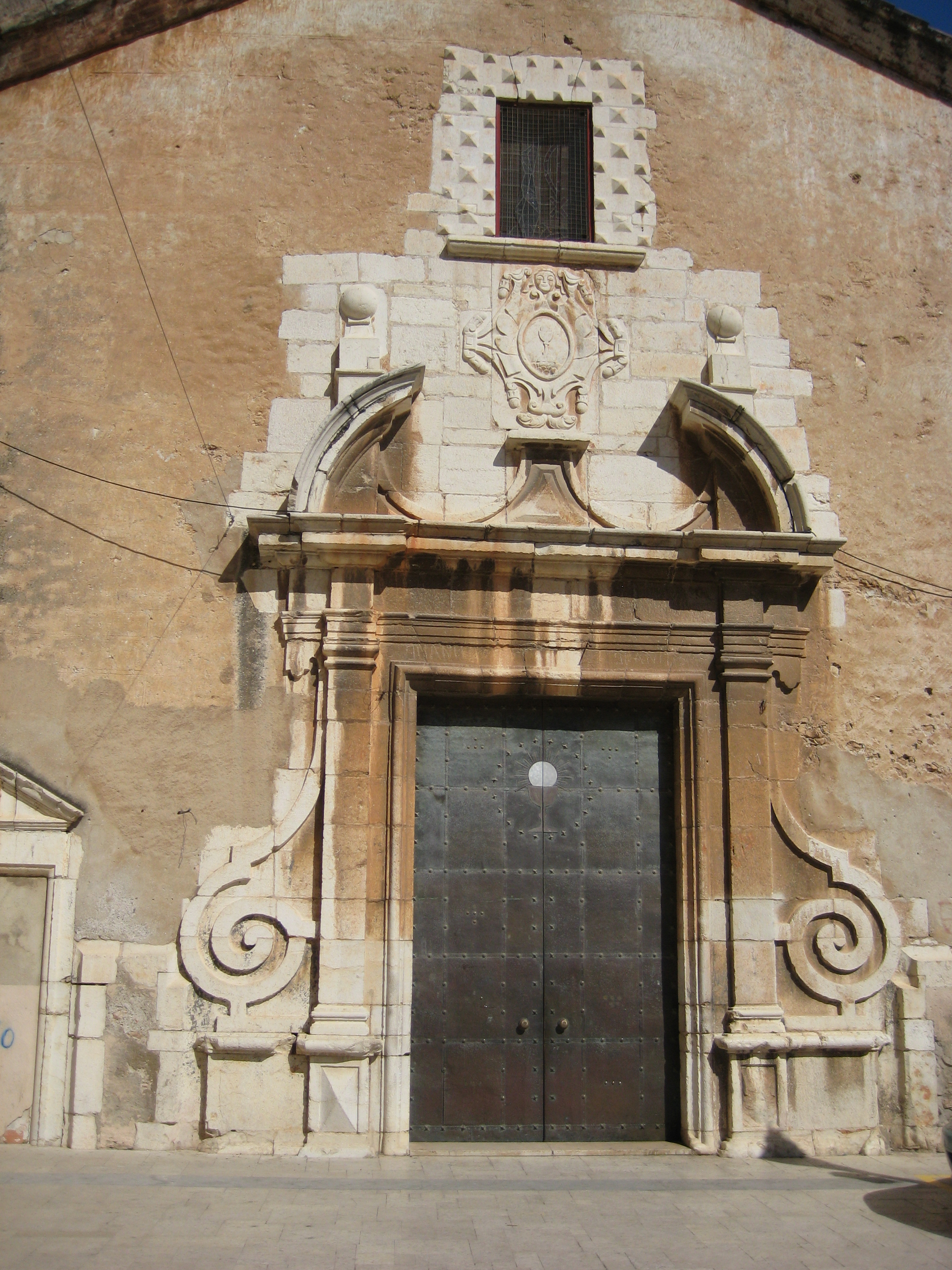 Door of the chapel of the Communion of St. Bartolomew's Church, Benicarló (Spain)